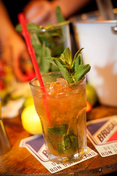 Golden Mojito preparado con "Brugal Añejo"